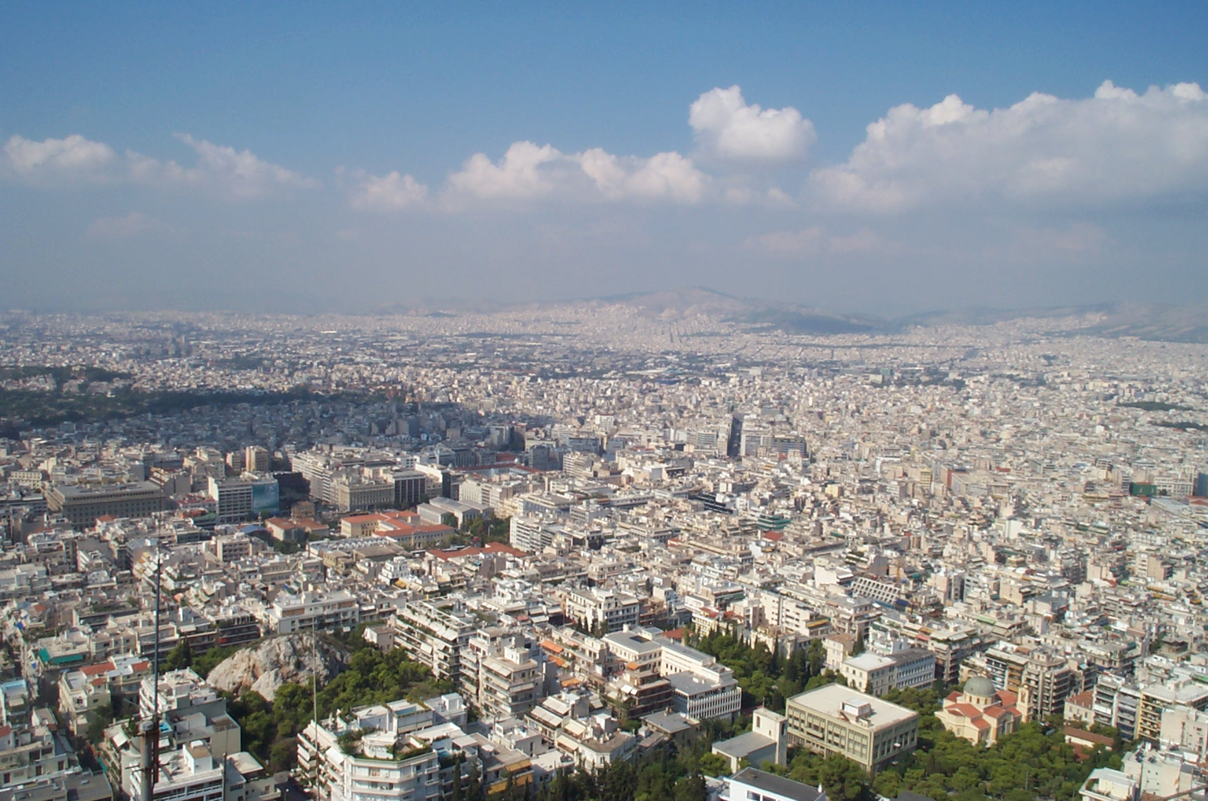 source file for a panoramic view of Athens from the Lykavittos Hill (Λυκαβηττός, Lycabettus), 2005-09. Copyright © 2005 Kaihsu Tai.